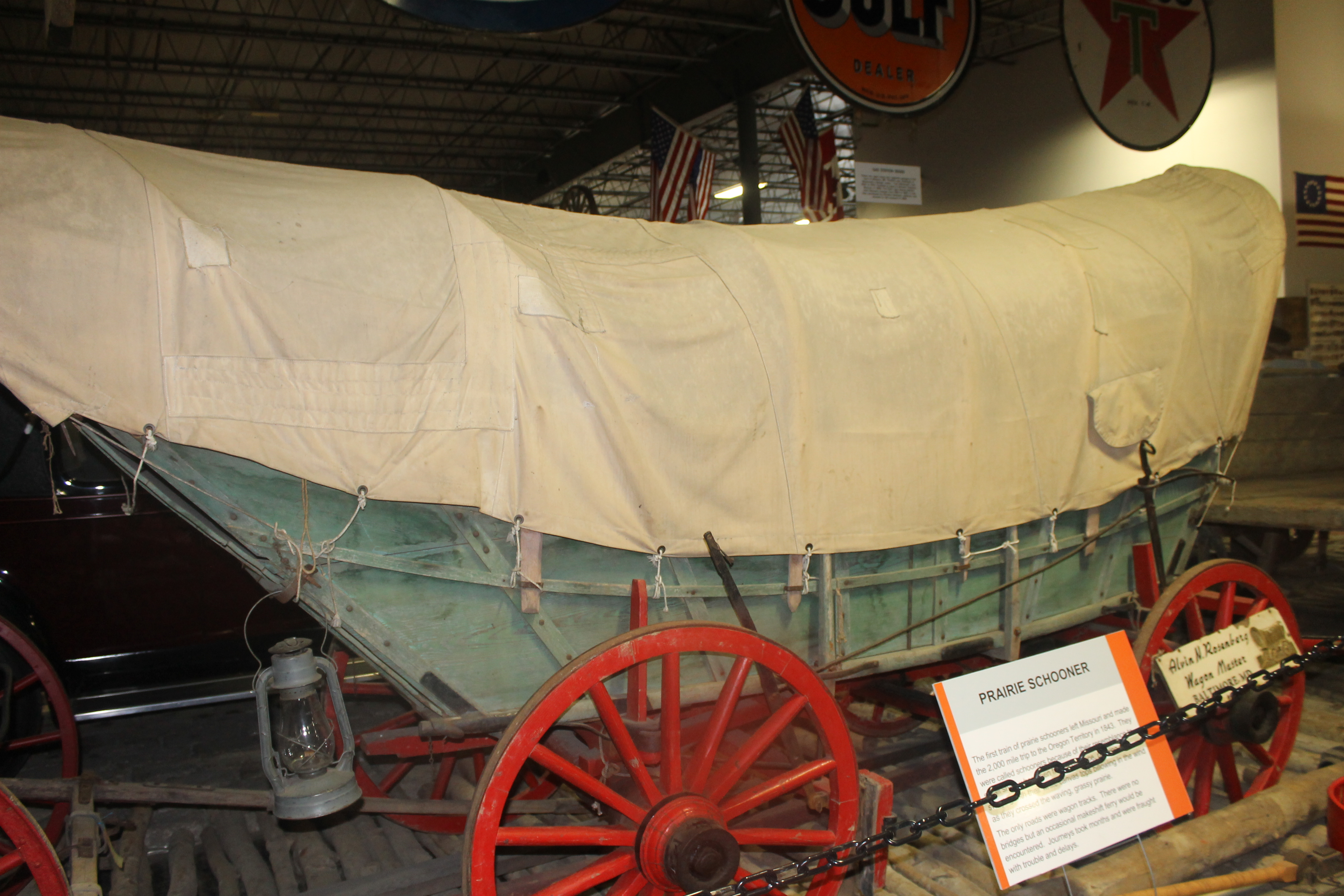 I took photo with Canon camera of prairie schooner at Cole Land Transportation Museum in Bangor, ME.